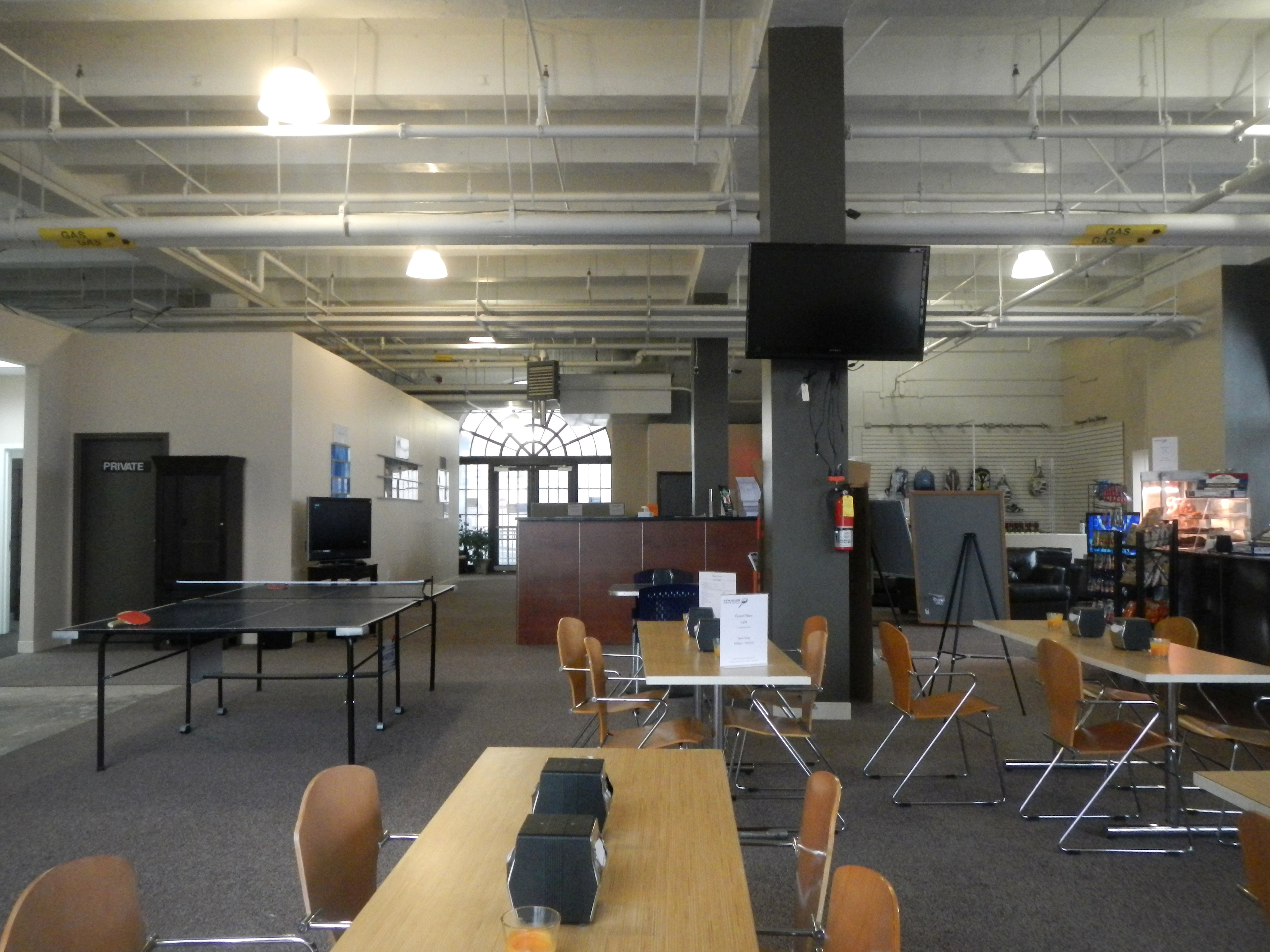 Looking west inside former power house.